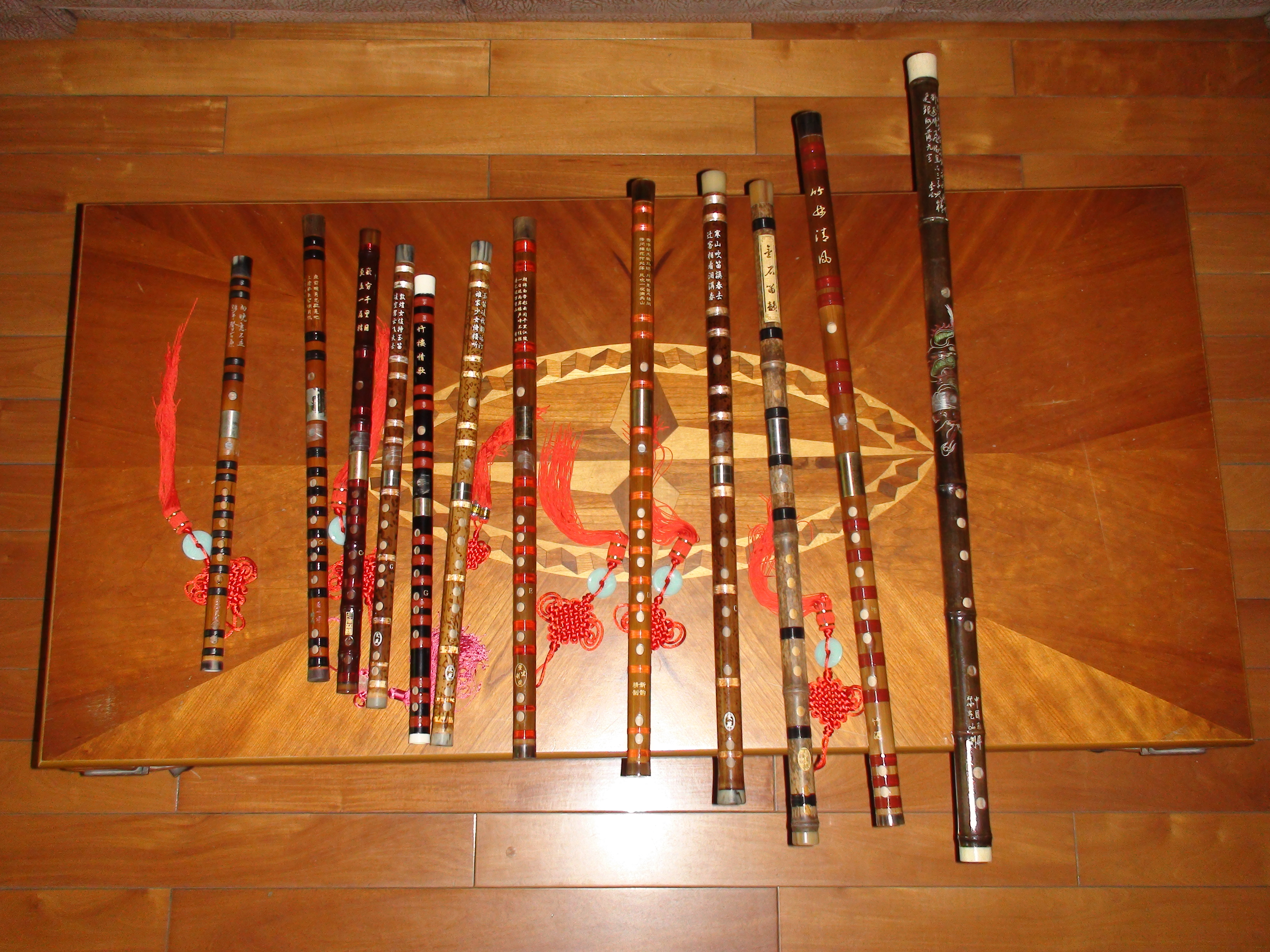 Diffenent sizes of Dizi